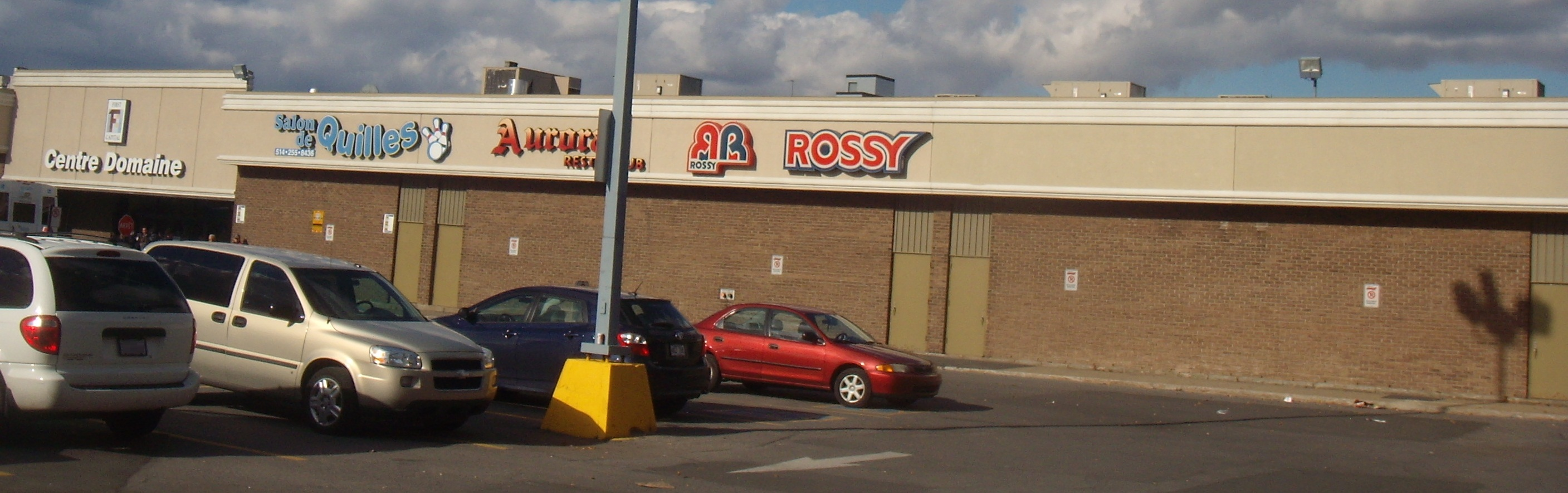 Rossy Centre Domaine photographed in Montreal, Quebec, Canada.